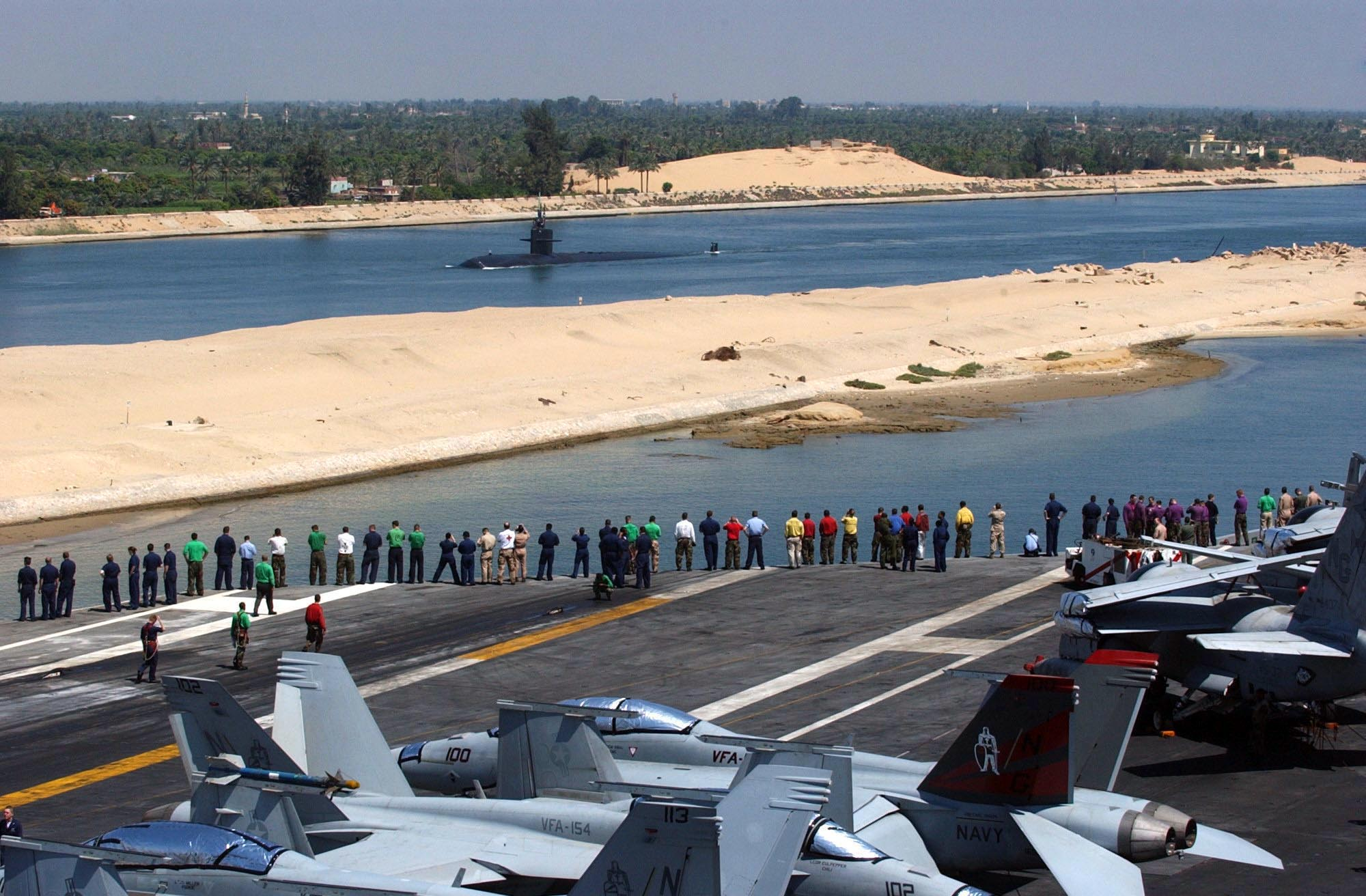 Sailors stationed aboard the Nimitz-class aircraft carrier USS Carl Vinson observe the Los Angeles-class submarine USS Philadelphia (SSN 690) as they pass one another while transiting the Suez Canal. The Carl Vinson Carrier Strike Group is currently deployed to the 6th Fleet area of operations and will end its deployment with a homeport shift to Norfolk, Va., to complete a three-year refuel and complex overhaul.